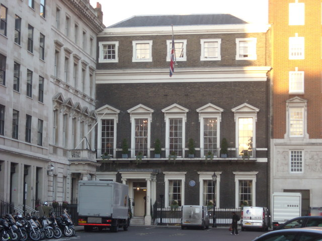 Another Gentleman's Club, St James's Square. The stone-faced white building in the corner at left is 5, St James's Square, anciently "Wentworth House", built 1748-51 by William Wentworth, 2nd Earl of Strafford (1722–1791) to the design of Matthew Brettingham The Elder.[1]